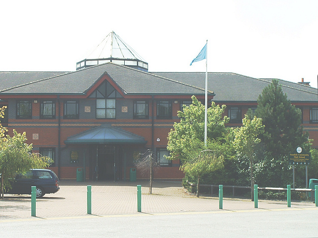 Standish High School. This is the newly-constructed main building for the Community High School, christened the Langtree Building